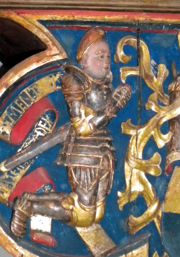 Swedish regent Sten Sture the Younger depicted in a contemporary altar sculpture at West Aros (Västerås) Cathedral, as released by image creator RistessonPlace: West Aros, Sweden